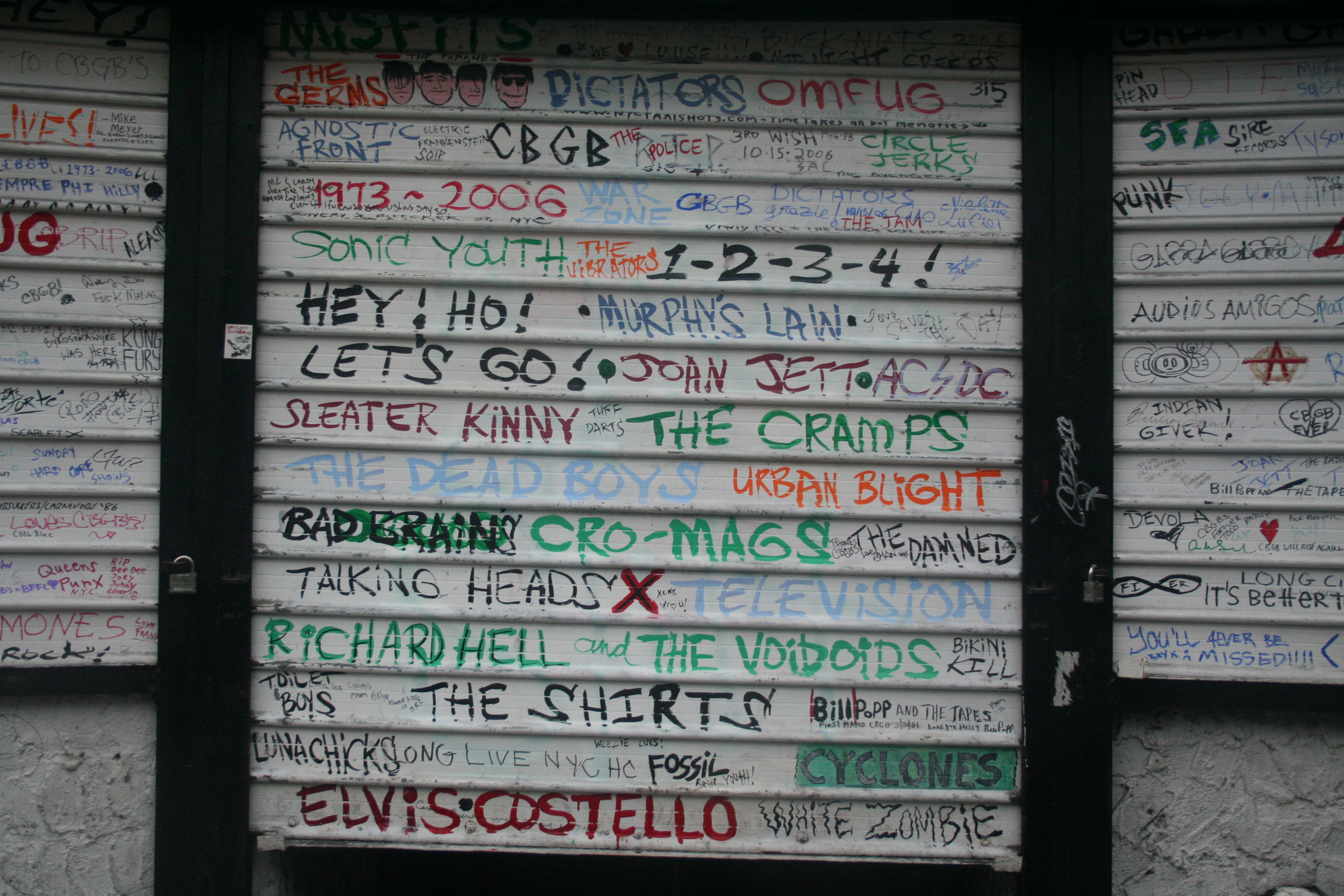 The entrance to CBGB the day after the closing